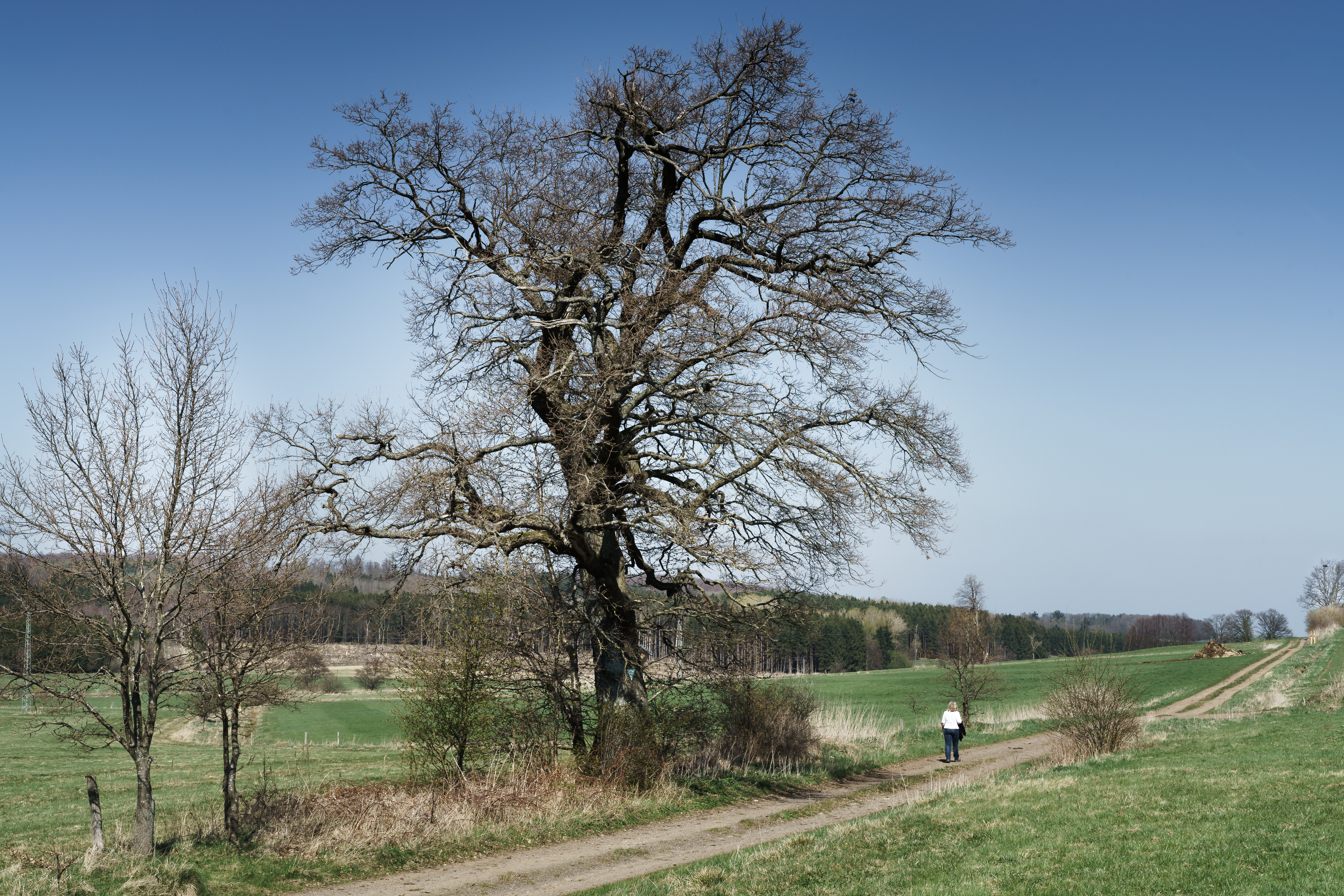 Eiche in der Kreuzwiese (Oak in the Cross Meadow) in Engelrod, Lautertal, Germany - Natural monument